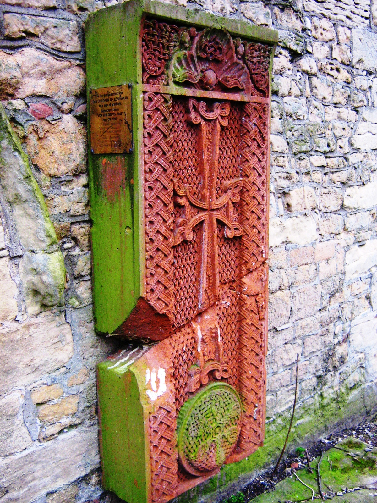 Red stone with green lichen and moss A plaque above this stone cross on the side wall of St mary Magdelene Church in Hucknall. The plaque on the side says: The Khachkar (Armenian stone cross) was presented to Holgate School in 1991 in recognition of the work undertaken by Britain following the devastating earthquake in Armenia of 1988. The Lord Byron School in Guimri in the Republic of Armenia was built to replace one of the destroyed schools and subsequently a link was formed between this new school and the Holgate School Hucknall. The Khachkar is placed here in memory of Father Fred Green. On the side a brass plaque reads To the British People from THE CHILDREN OF LENINAKAN. As a sign of gratitude. Benevolent Union For Children's Sake Nov 5th 1991